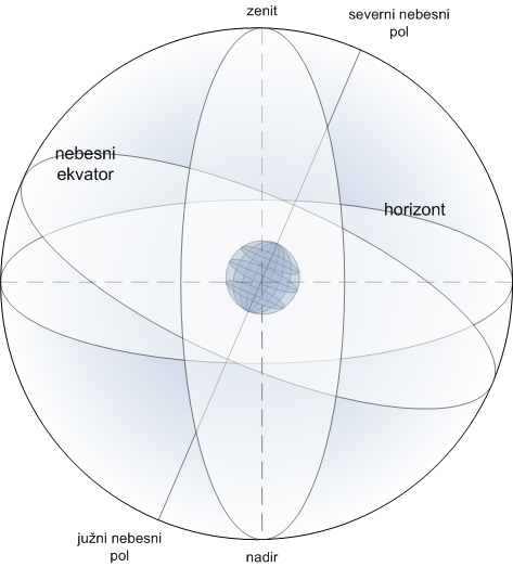 Diagram of celestial sphere (created with programe Microsoft® Office Visio® Standard 2003)